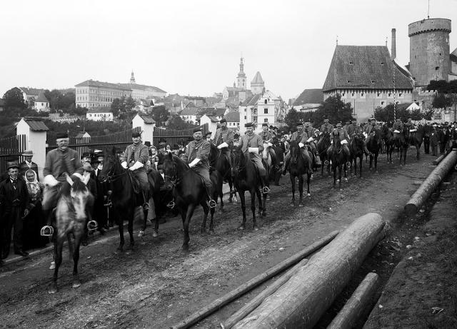 Sokol parrade in the front of Kotnov castle, Tábor, Czech Republic author: Ignác Šechtl and Josef Jindřich Šechtl Uploaded with permission of inheritors of the copyright